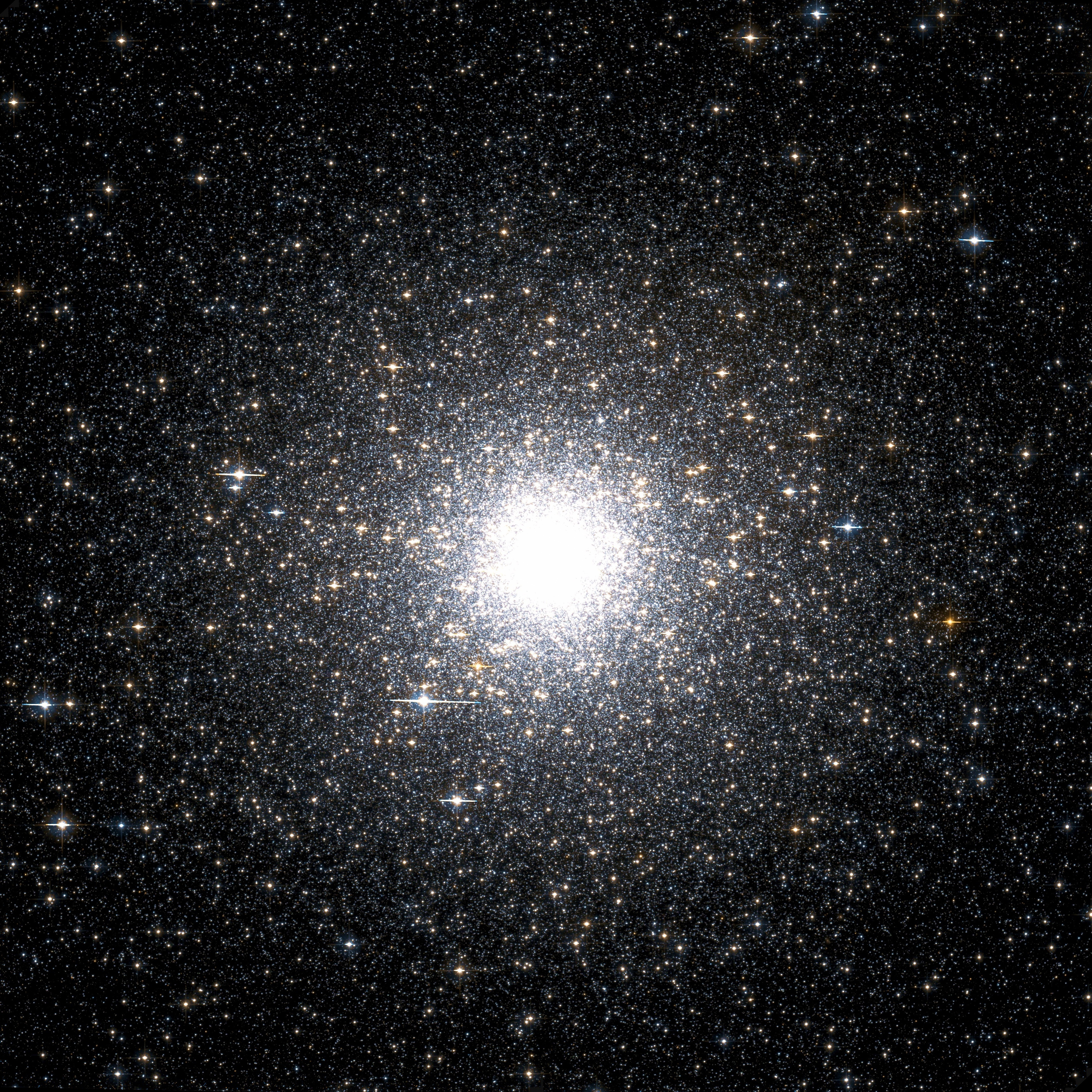 Messier 54 globular cluster by Hubble Space Telescope; 3.5′ view